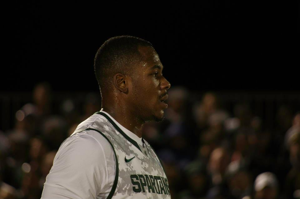 Derick Nix while at Michigan State.